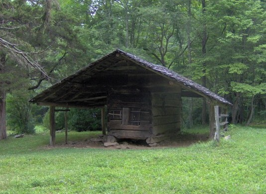 Corn crib at the Walker Place in Little Greenbrier, in the Great Smoky Mountains of Tennessee, USA. The overhanging roof allows for wood storage or wagon protection.